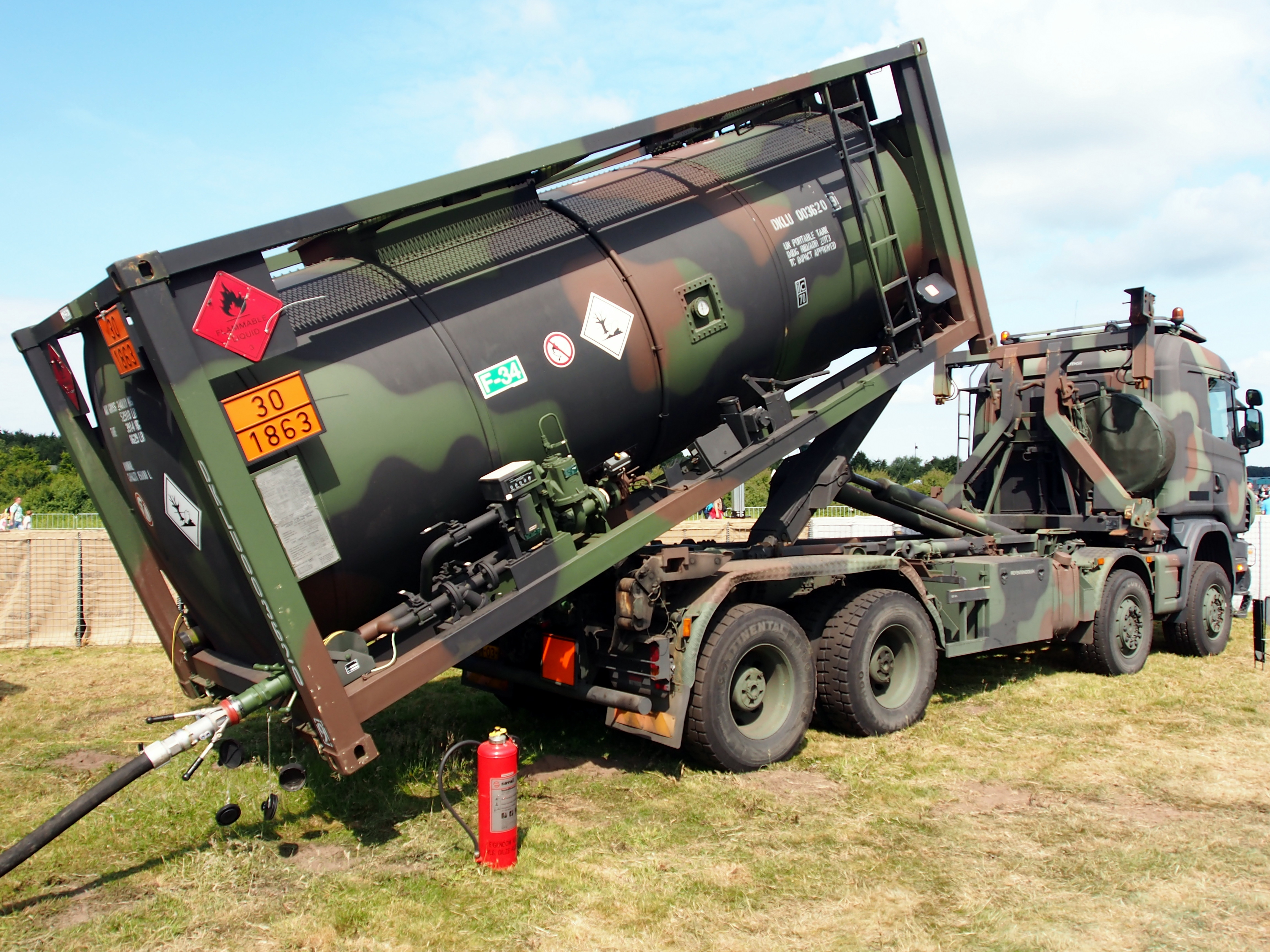 Photographed at Gilze-Rijen Air Base ( IATA=GLZ, ICAO=EHGR), The Netherlands.